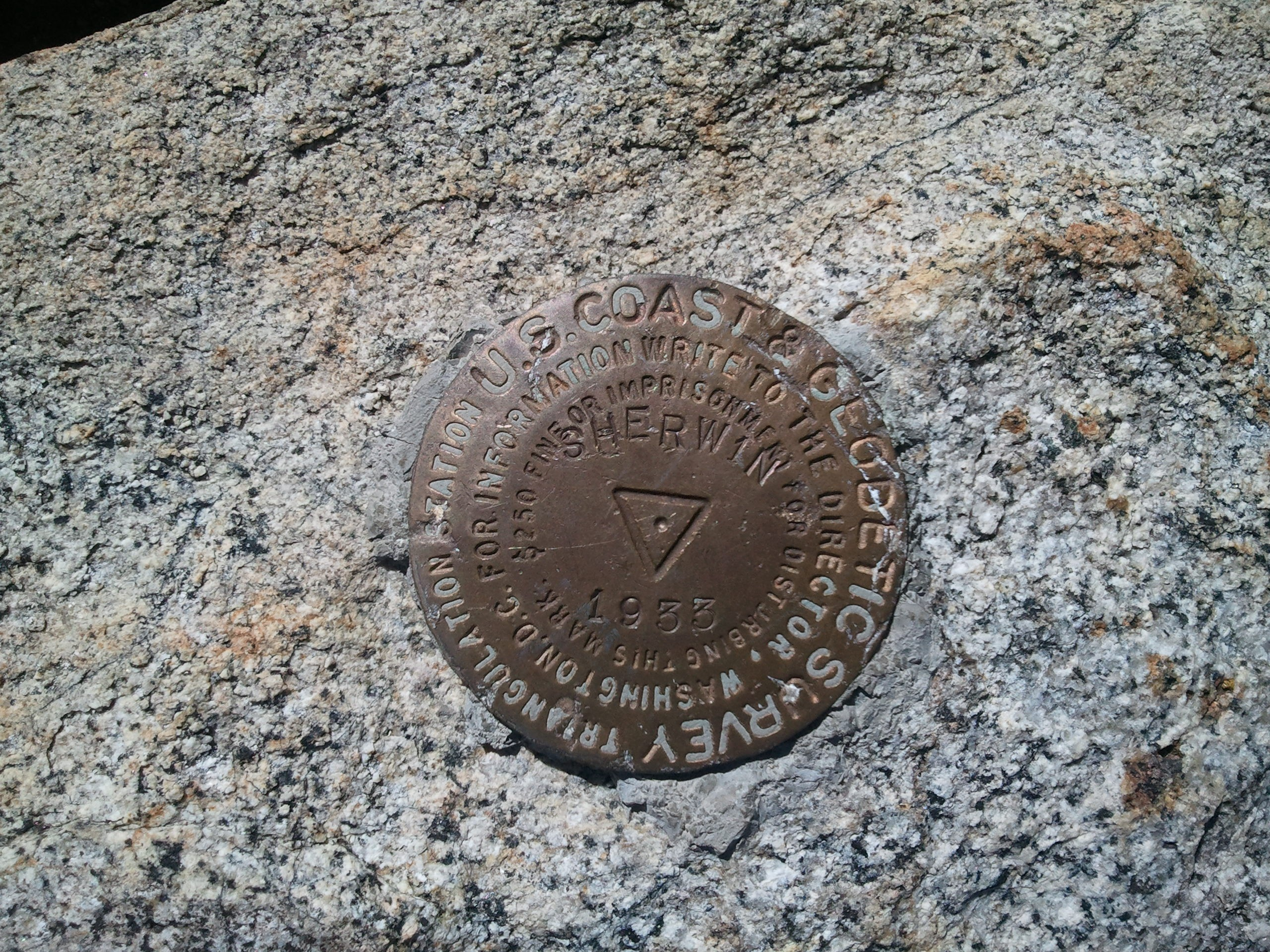 U.S. Coast & Geodetic Survey plaque on Sherwin Summit (37.503775, -118.684705) at 11740'